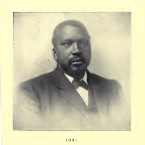 Portrait of Salim Charles Wilson (c. 1865—1946) from his 1901 memoirs. Born Atobhil Macar Kathiec among the Gok Dinka of what is now South Sudan, he was captured by slavers, but freed in 1880 and taken by missionaries to England